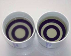 Kikichoko